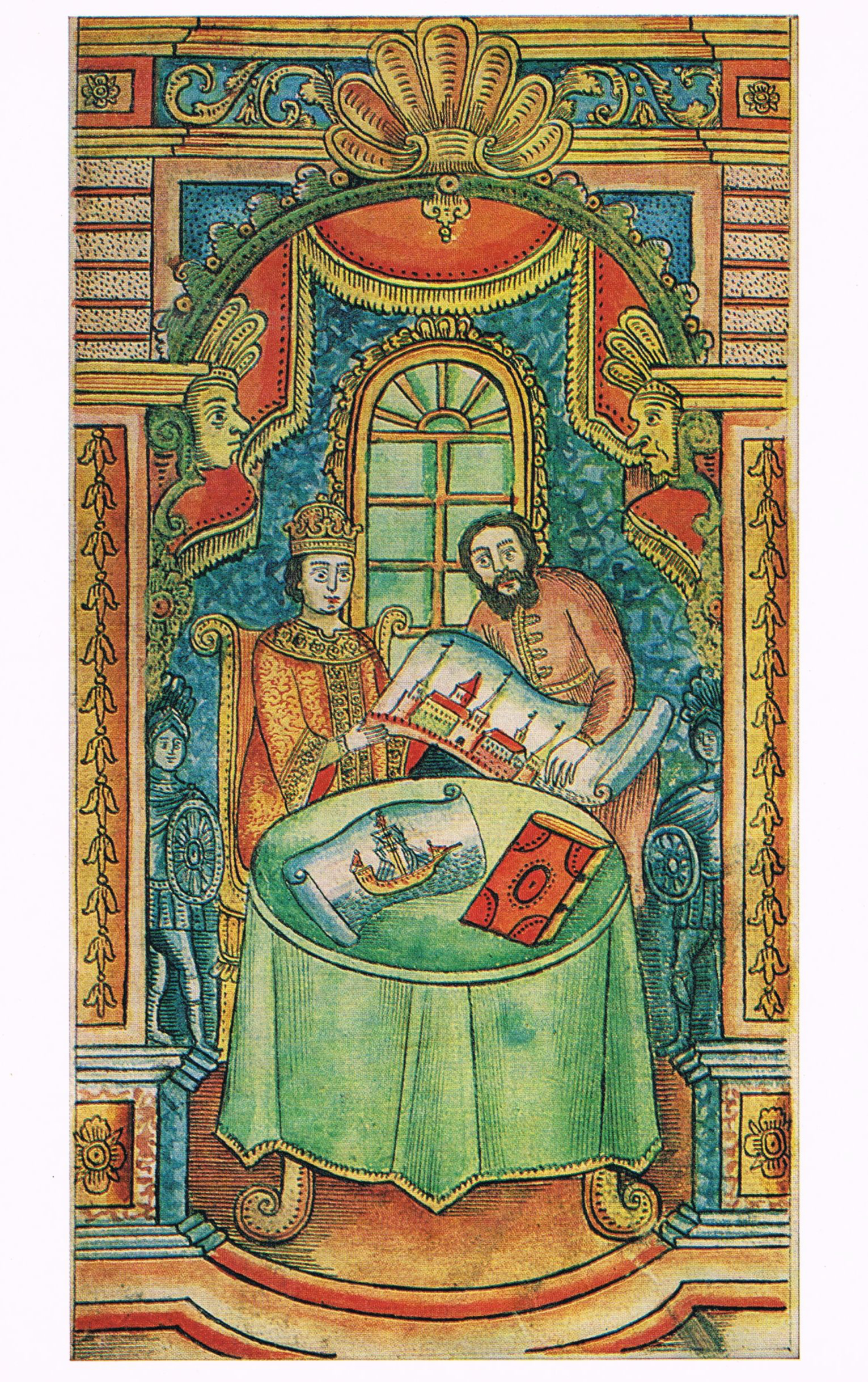 Young Tsar Peter I and his teacher Nikita Zotov